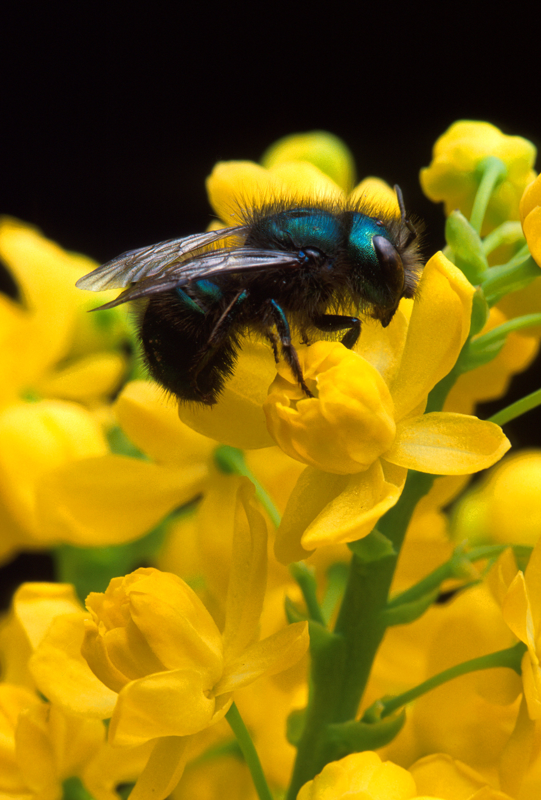 This bee, Osmia ribifloris (on a barberry flower), is an effective pollinator of commercial blueberries (because it is blue) and is one of several relatives of the blue orchard bee, Osmia lignaria. Similar in appearance, the blue orchard bee is also a successful commercial pollinator that is now being evaluated for use in a wider range of crops.